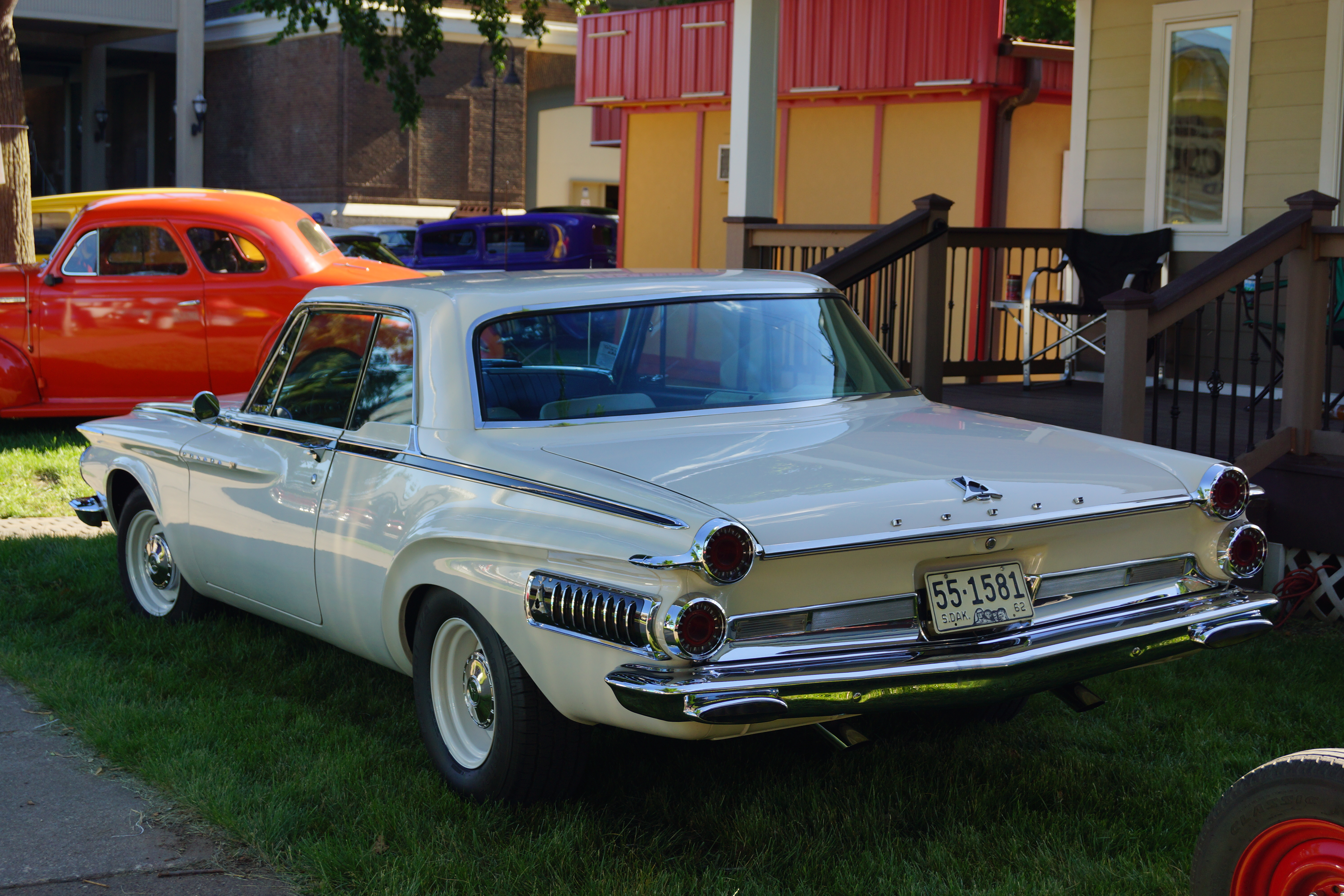 Minnesota Street Rod Association (MSRA) “BACK TO THE 50′s” 44th Annual Car Show June 23-25, 2017 Minnesota State Fairgrounds St. Paul Minnesota Click here for previous "Back to the 50's" pictures.. Click here for more car pictures at my Flickr site. Or here for my Car Crazy Tumblr site. Or on Twitter @DVS1mn.